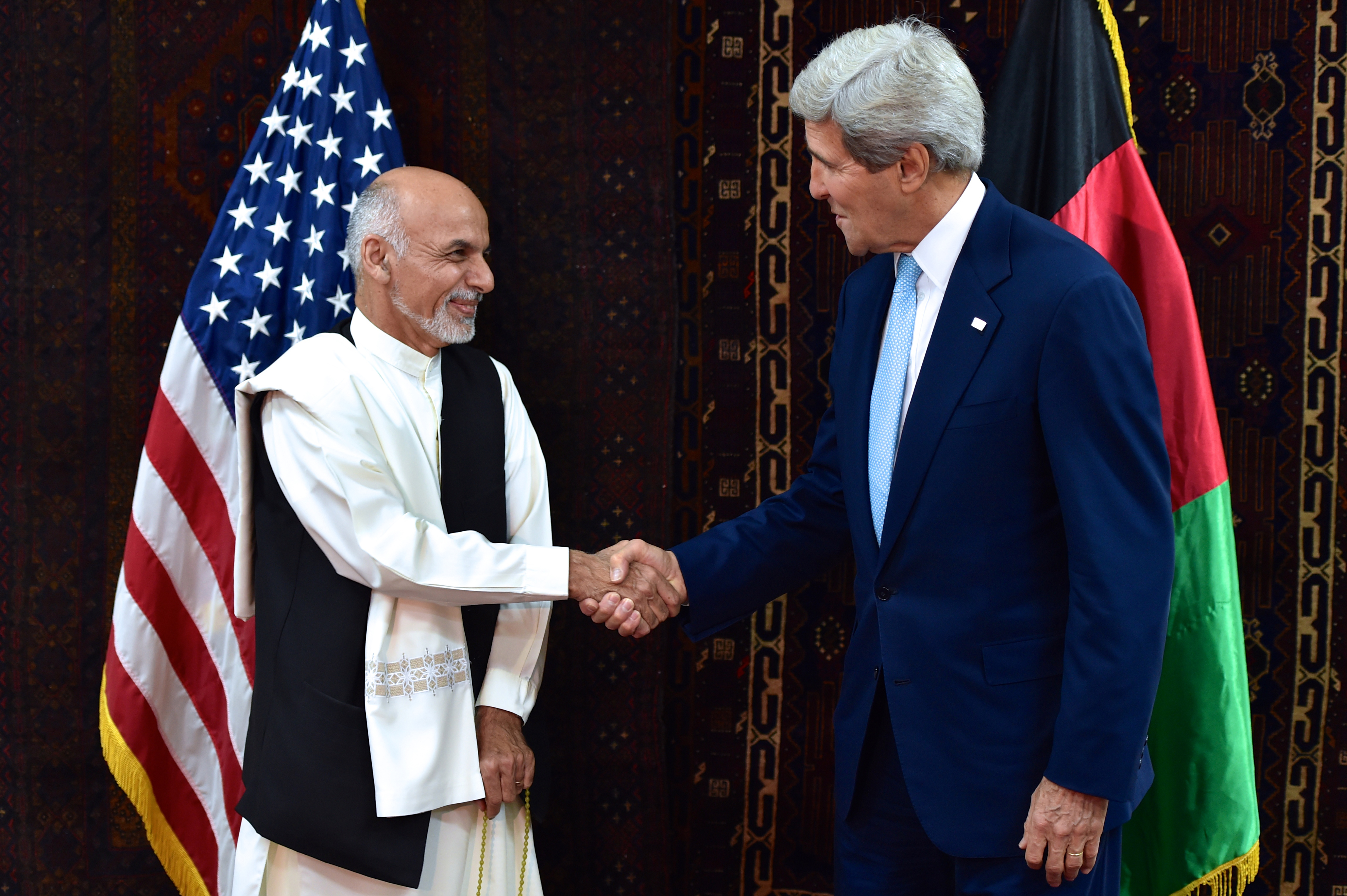 U.S. Secretary of State John Kerry shakes hands with Afghan presidential candidate Ashraf Ghani on July 11, 2014, after he arrived at the U.S. Embassy in Kabul, Afghanistan for a meeting about steps to resolve the country's disputed presidential election between him and fellow candidate Abdullah Abdullah.